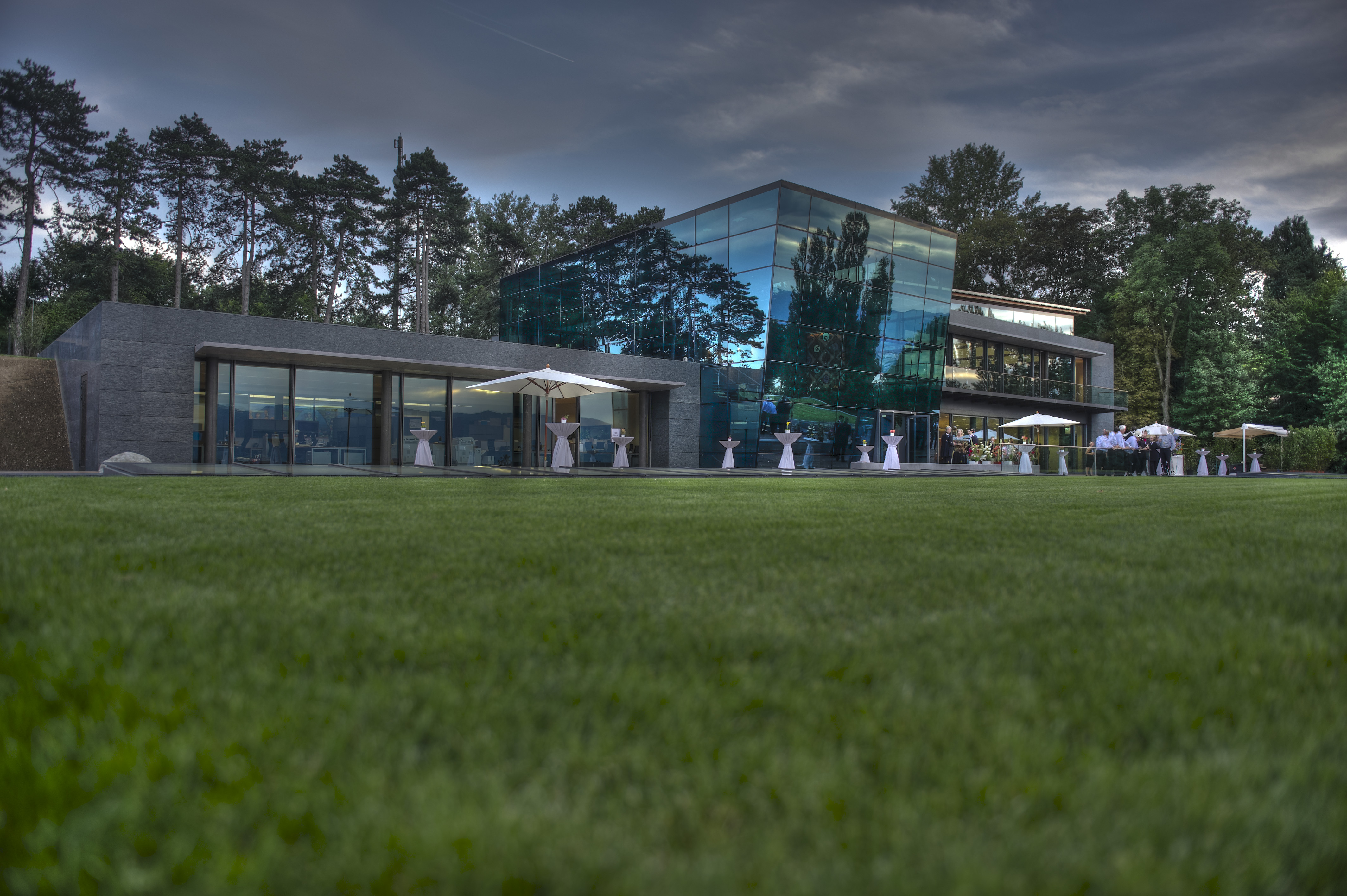 COLOGNY/SWITZERLAND, 26AUG10 - Extension of the Headquarters of the World Economic Forum in Cologny/Geneva.